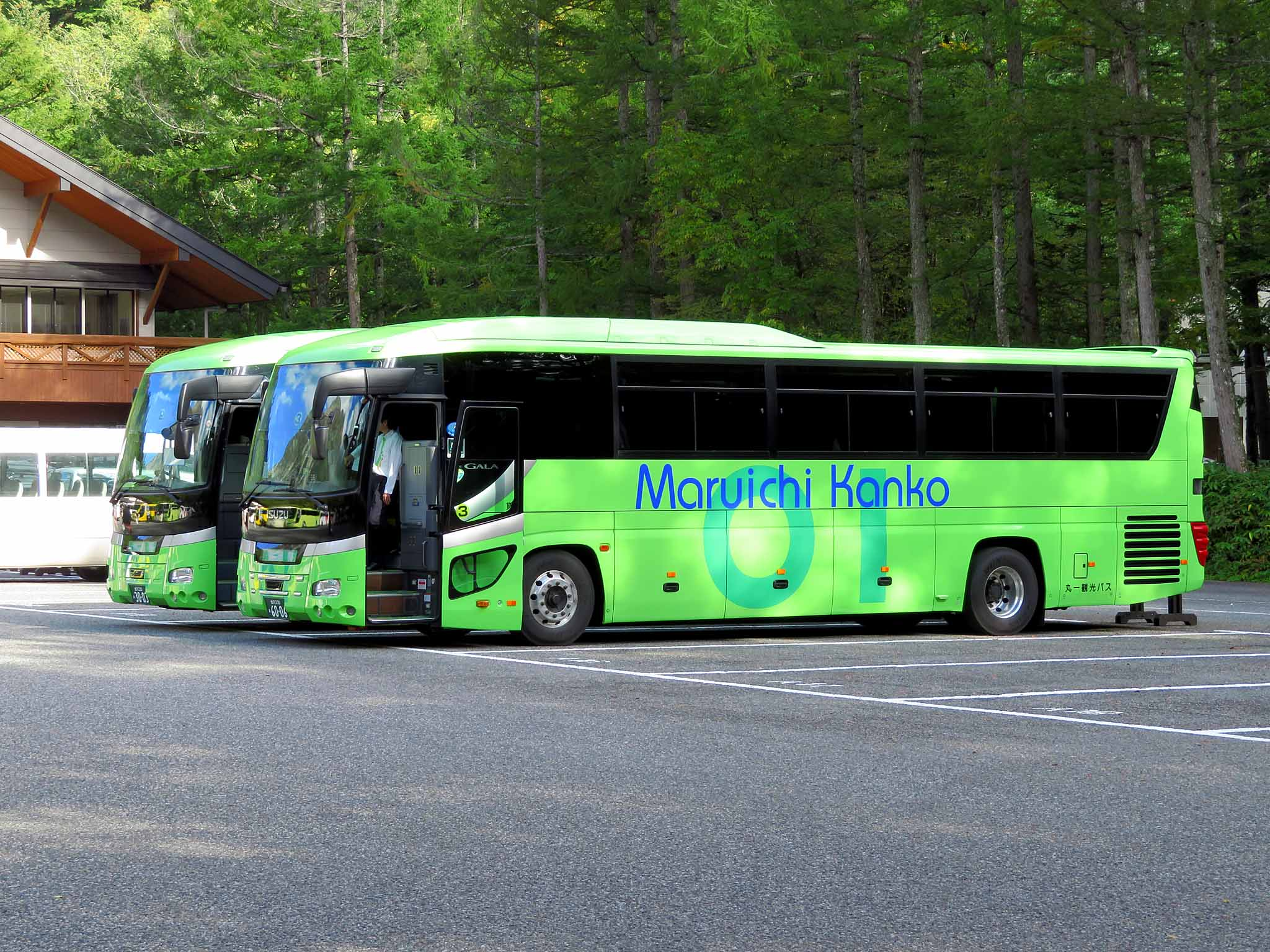 Fleet of Maruichi Kanko, Ishikawa. Model: Isuzu Gala HD RU1ES or RU1AS License plate: ISK230A6006 and ISK230A3003 Place: Kamikochi Bus Terminal, Matsumoto City, Nagano Japan